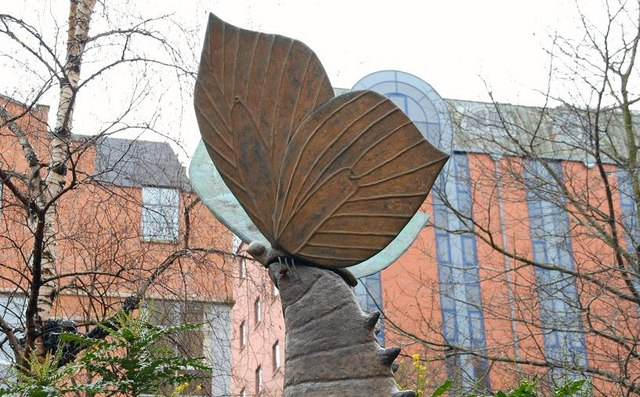 Sculpture, Blackstaff Square, Belfast This bronze and fibreglass sculpture, by Anna Cheyne, is called “Regeneration”. It is intended to symbolise the generation of Belfast. It shows a butterfly and caterpillar. A bit hidden by bushes and not too well known.